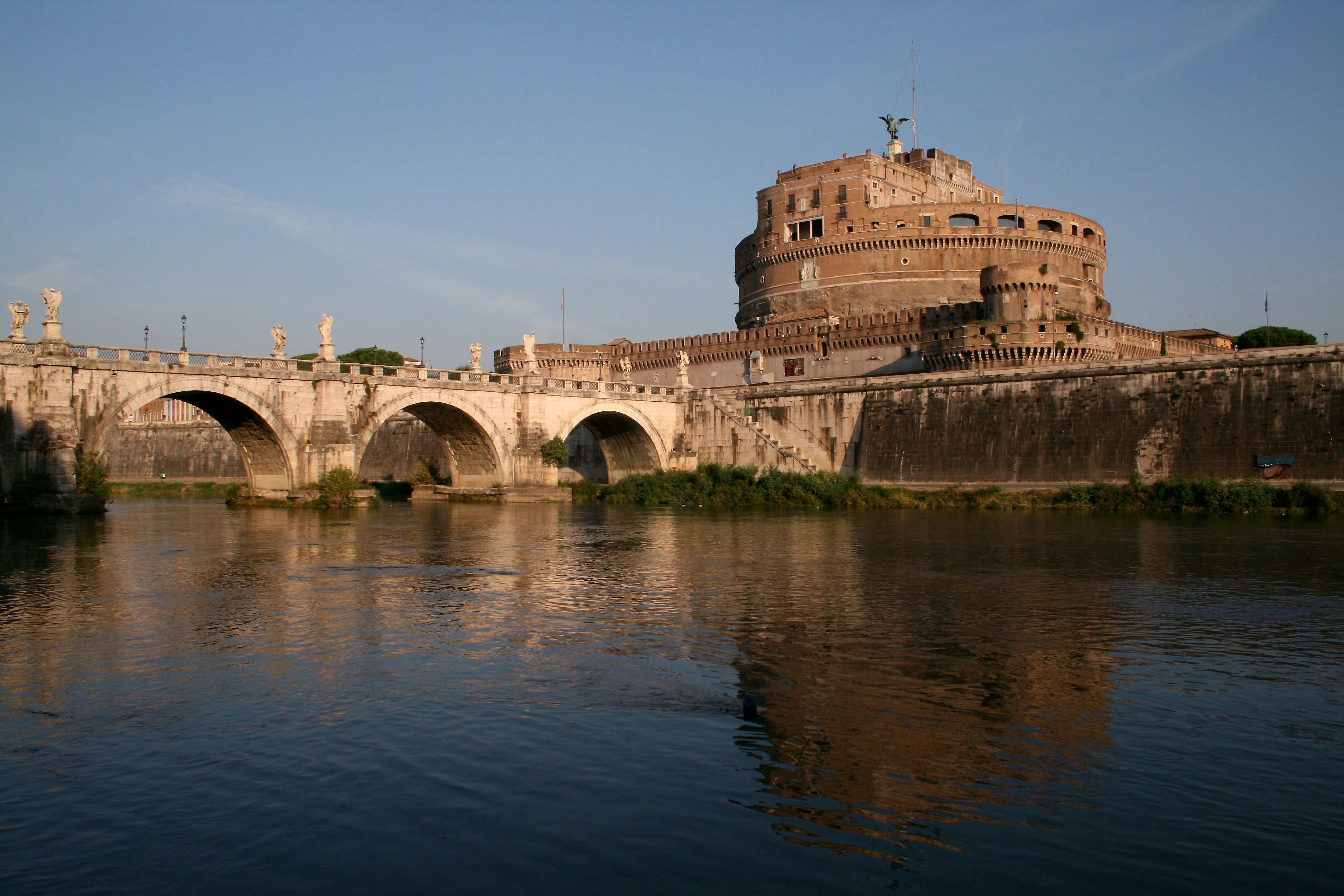 The Tiber, the bridge and the Castel Sant'Angelo in Rome, Italy.